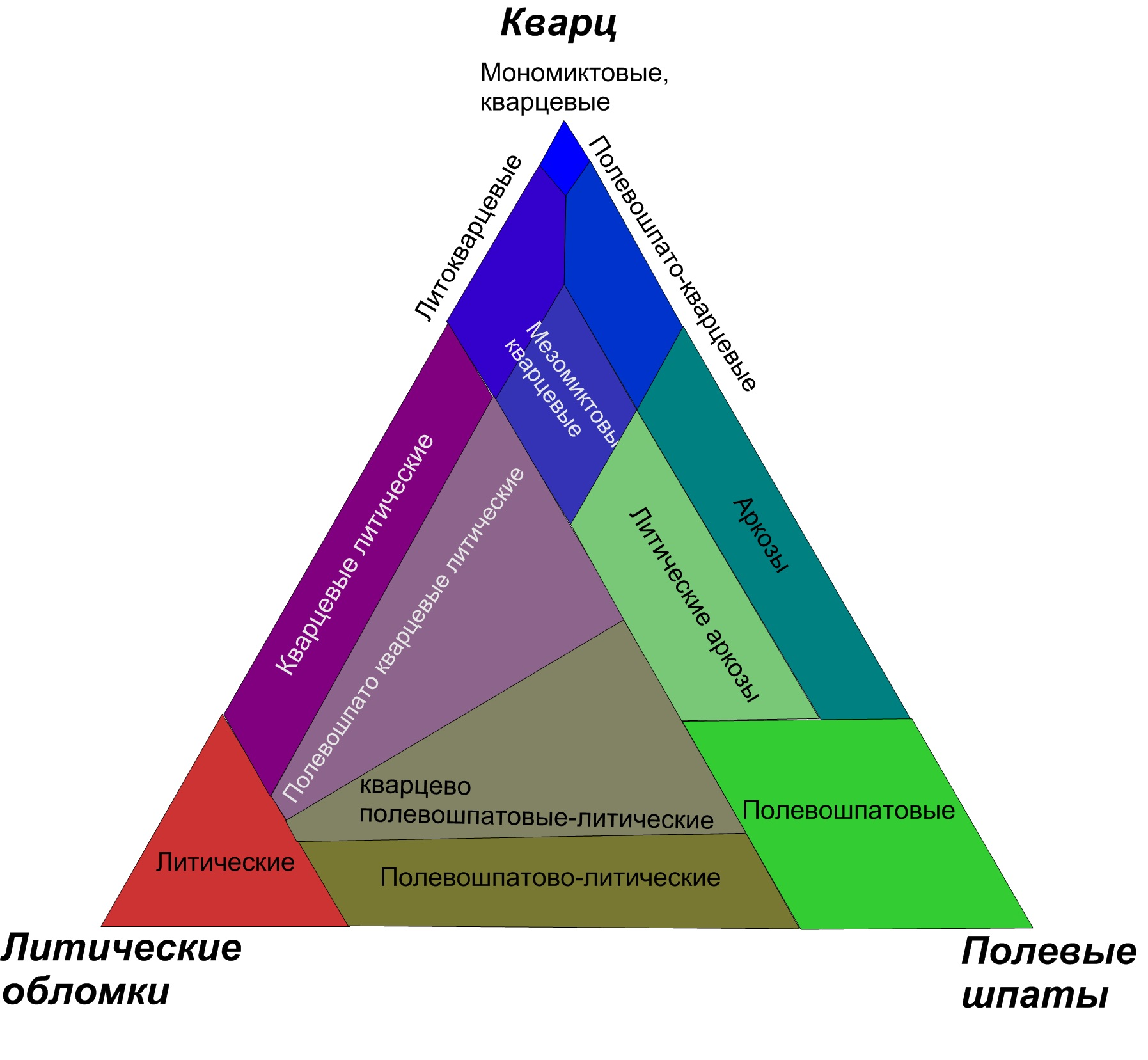 Сlassification triangle of SandStones